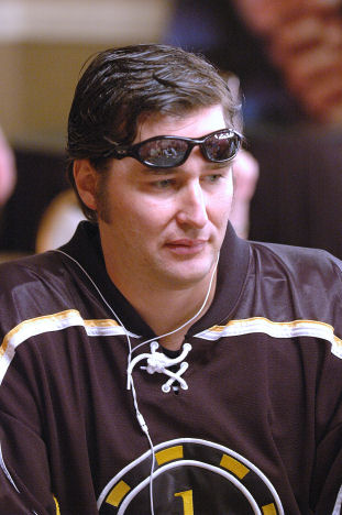 Phill Hellmuth in 2006 World Series of Poker at Rio lAs Vegas